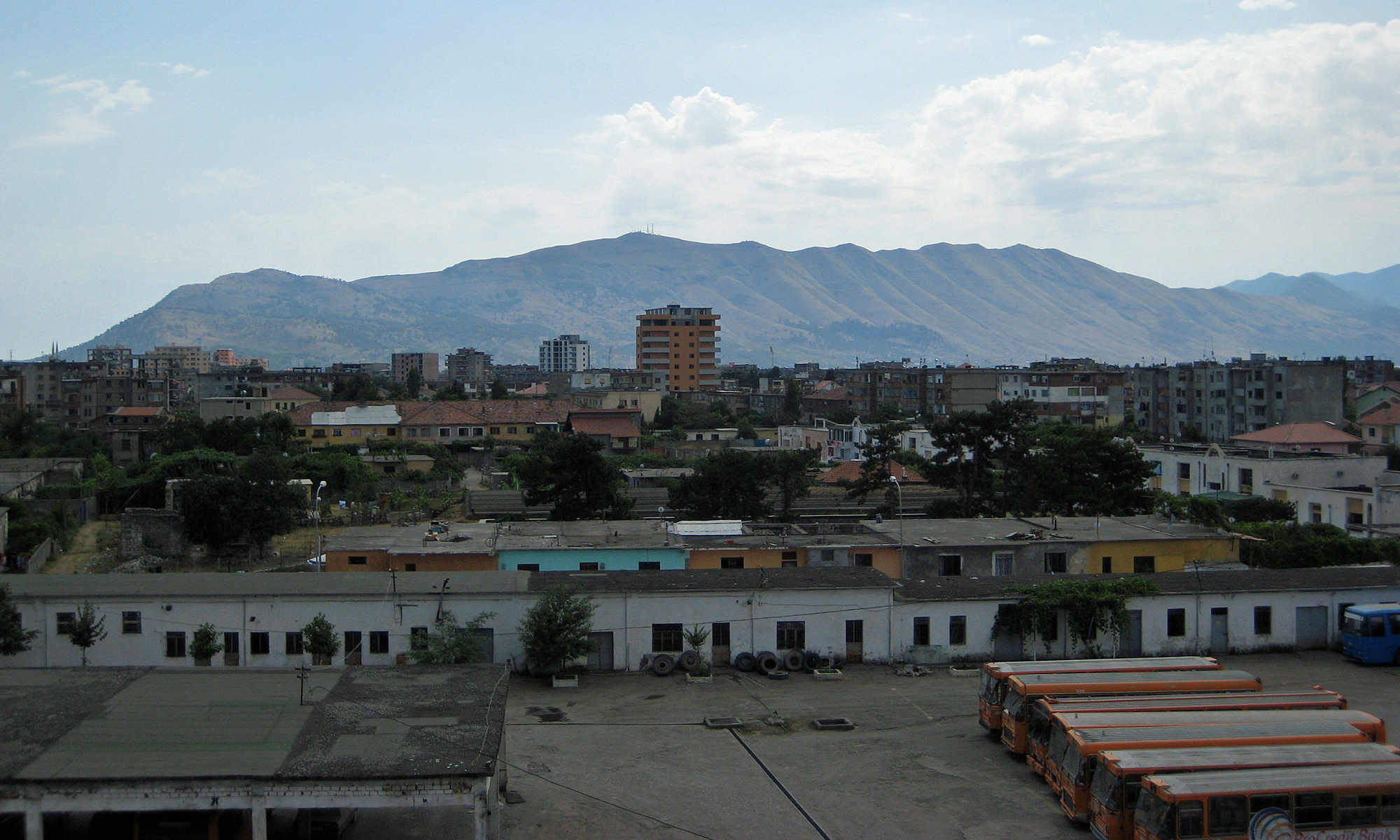 Eastern Outskirts of Shokdra and Mount Tarabosh – Albania